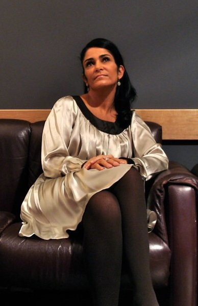 Mexican journalist Lydia Cacho